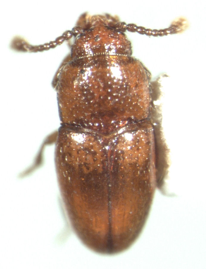 adult Thortus n.sp. (blind or nearly blind). Maungatautari, South cell, Outside cell, Transect 2, Pitfall trap G. Waikato, New Zealand, 20 Nov-17 Dec 2008, C.H. Watts.